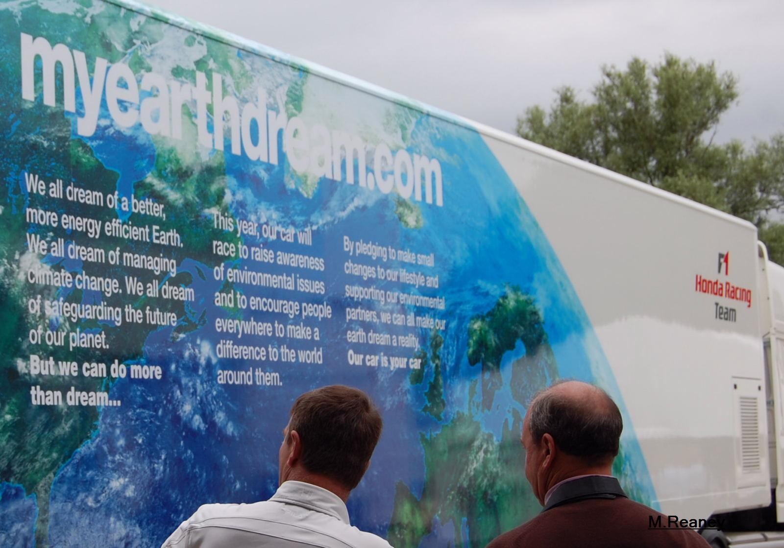 Honda Earth Truck 2007